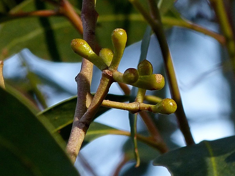 Flower buds of Eucalyptus muelleriana in the Bournda Environmental Education Centre near Bega